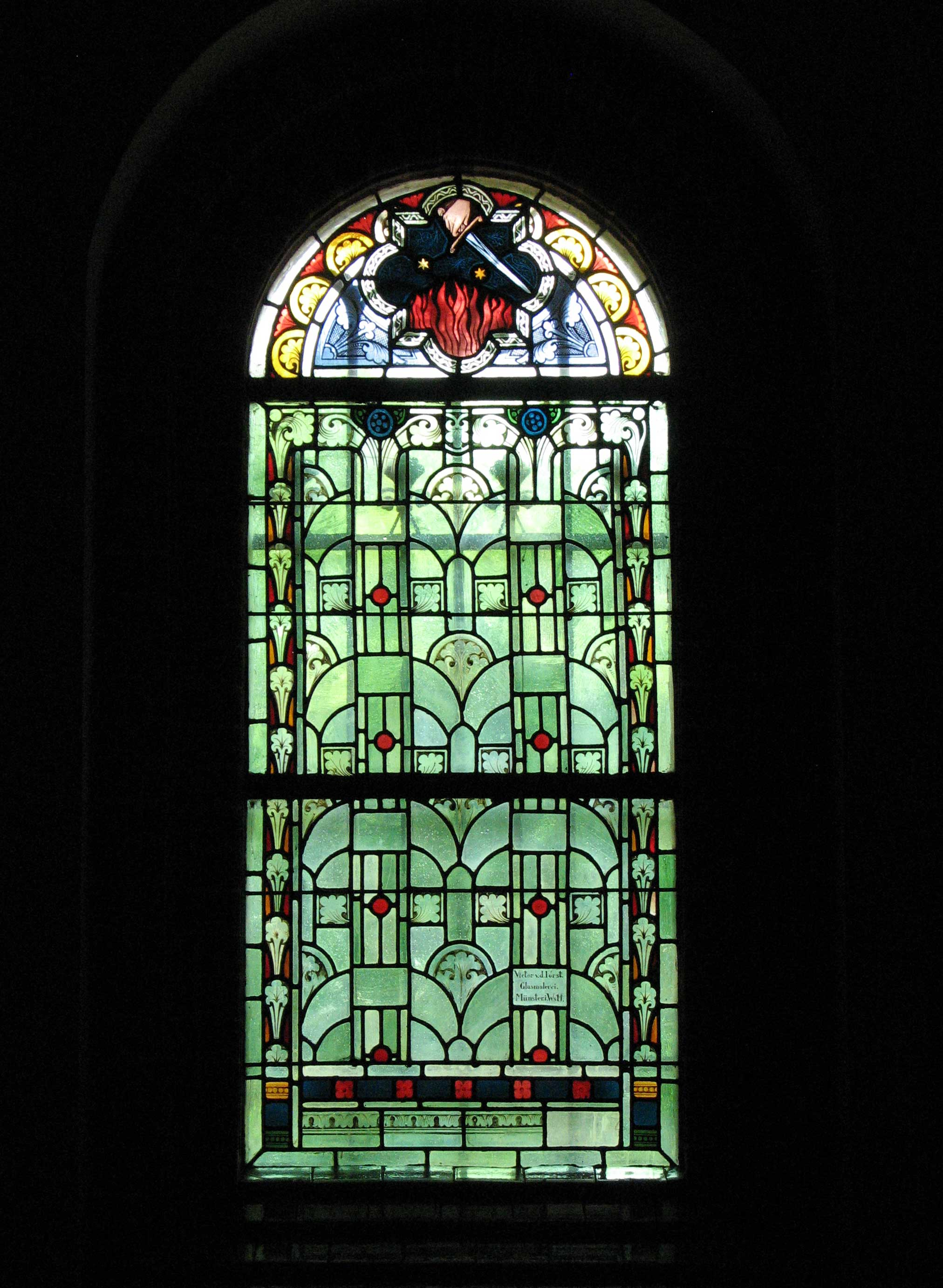 Stained glass window in the back of the Basilica of St. Louis King in Katowice Poland, XX century